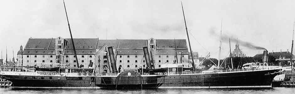 The passenger ship Christiania, photographed at Copenhagen Harbour.